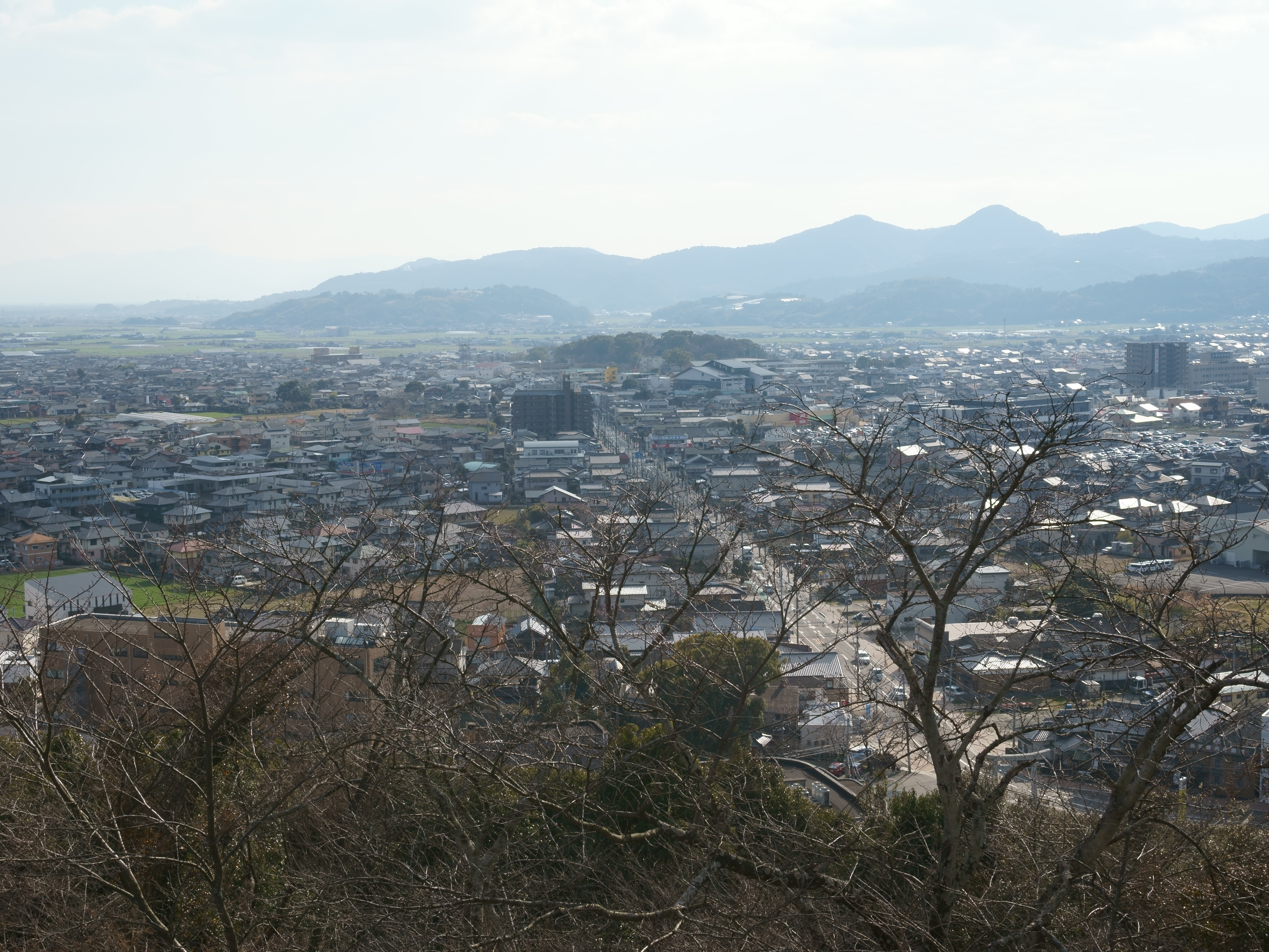 A cityscape of Ogi city, from a view space of Chiba Castle Ruin, in Saga prefecture.